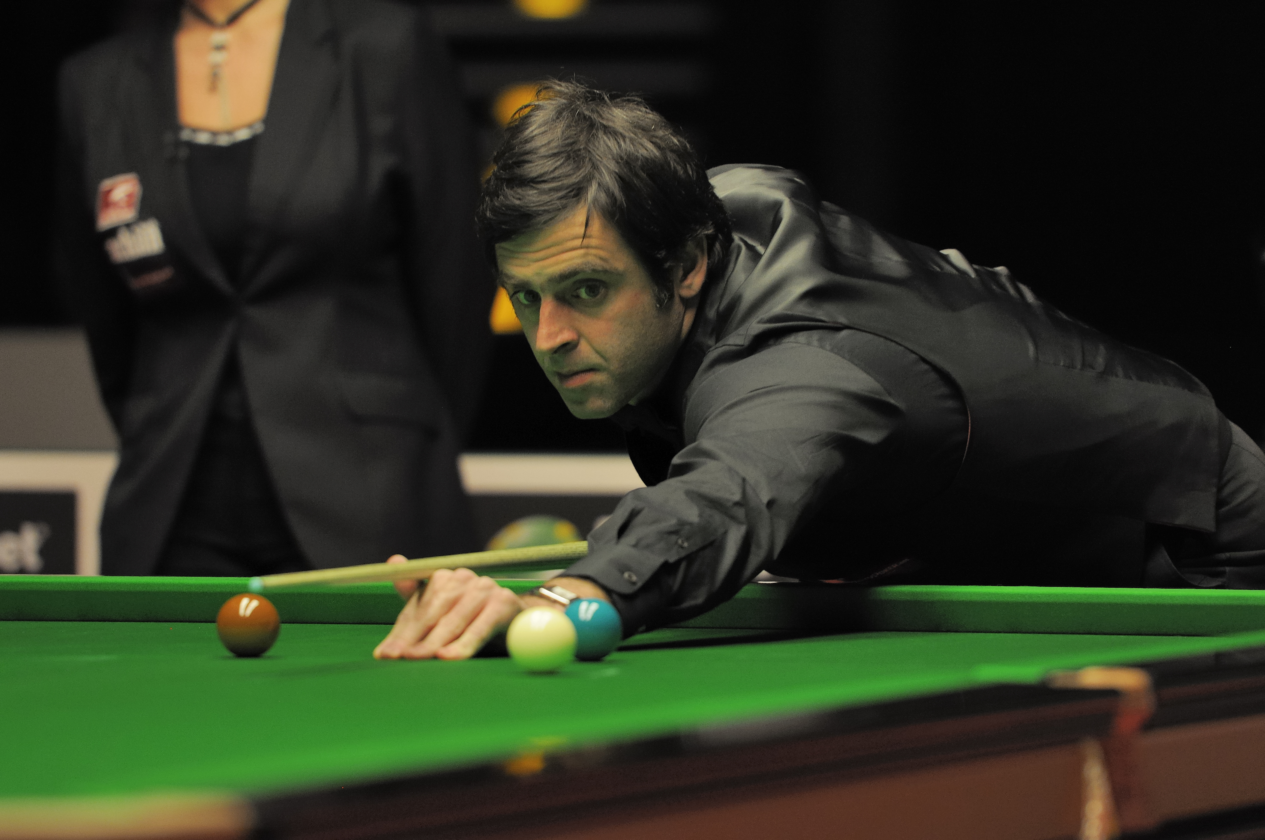 Picture taken in Berlin during the Snooker German Masters in 2011. Ronnie O’Sullivan.